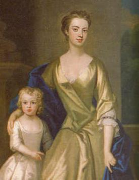 Portrait of Anne Spencer, Countess of Sunderland (1683–1716) and her daughter Diana Spencer (1710-1735)